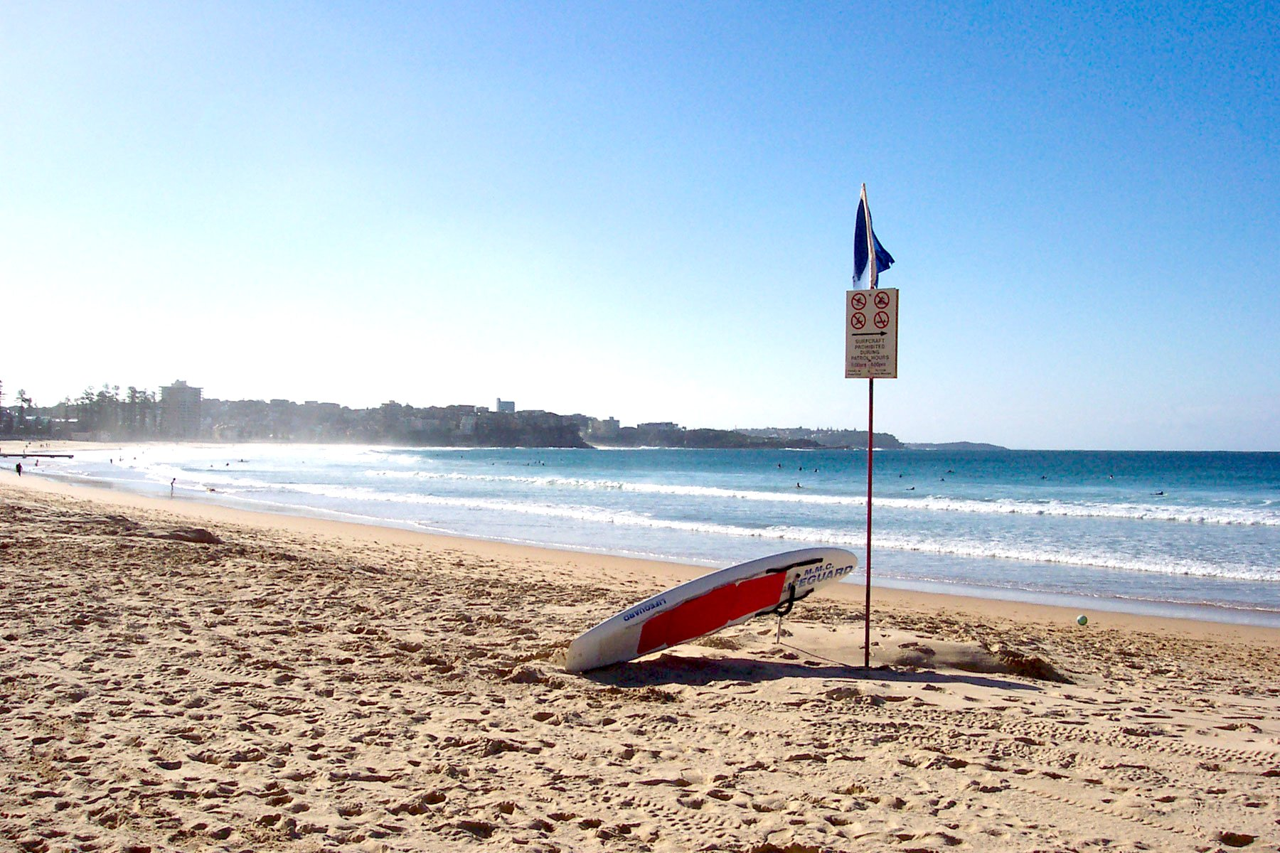 Manly Beach, Sydney, Australia Taken by Enoch Lau on 20 July 2004. As a courtesy, please let me know if you alter this image or this image description page. Original filename was 100_3145.JPG.